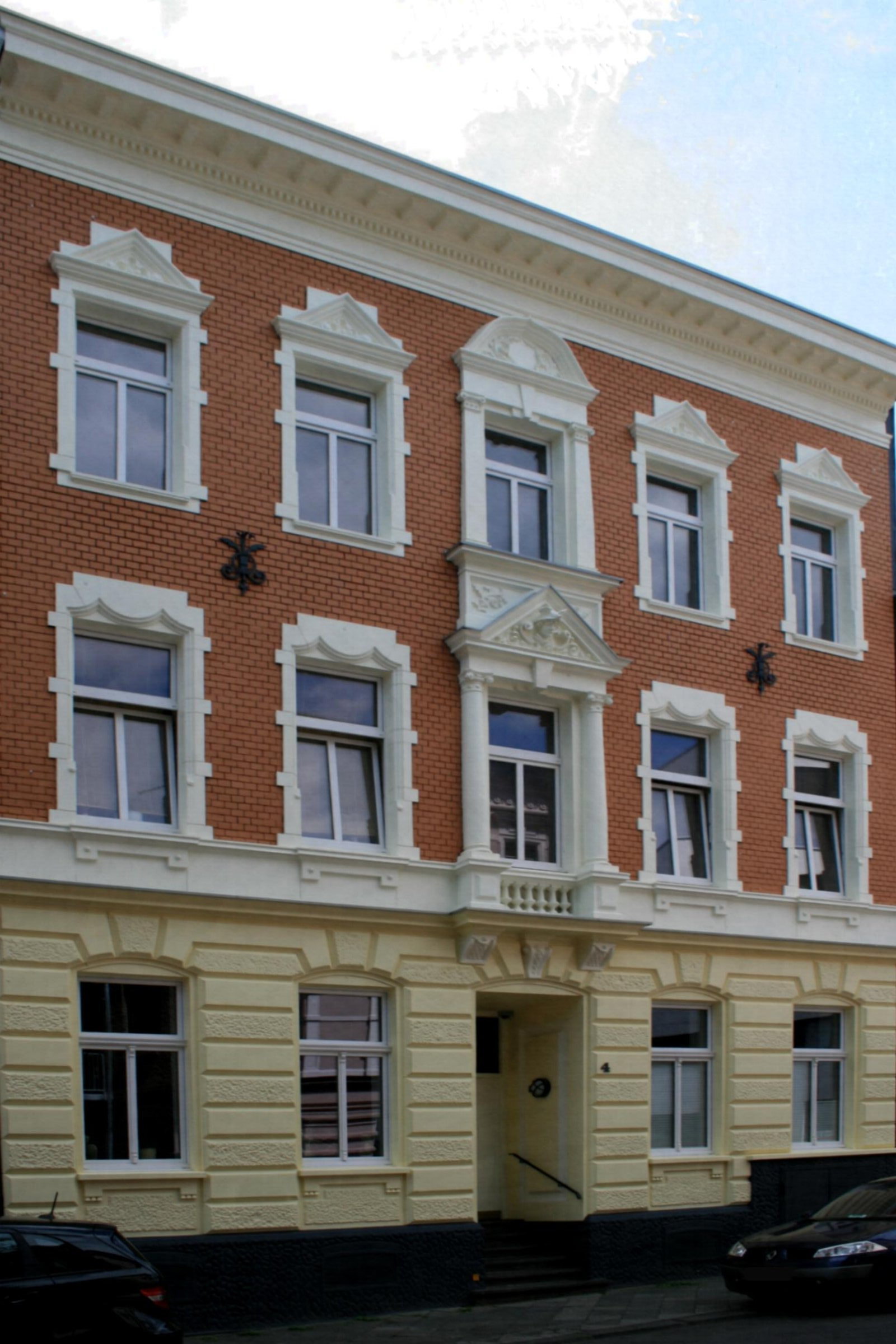 Cultural heritage monument No. F 026 in Mönchengladbach